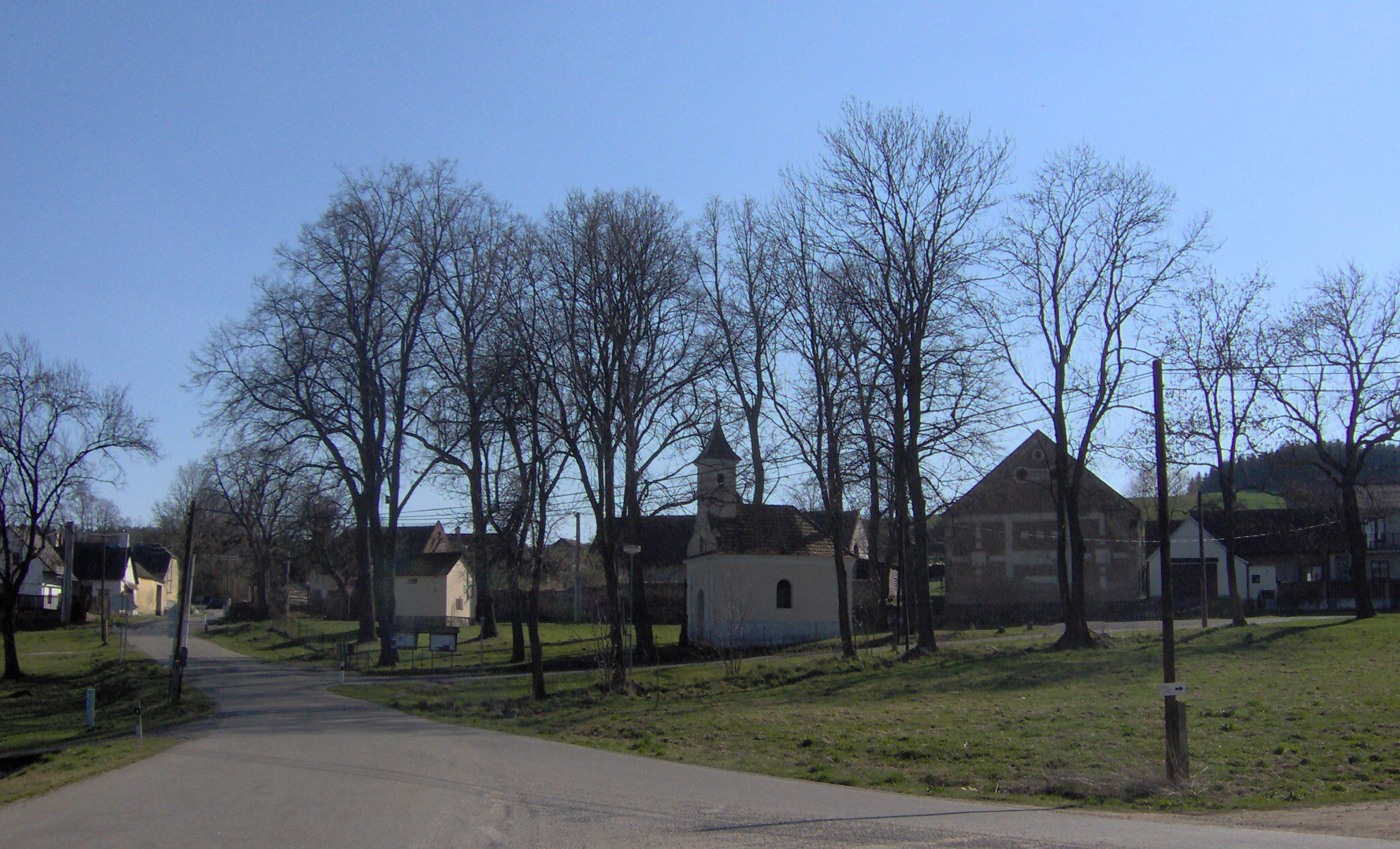 Chapel in Radkovice, a part of Úlehle, Strakonice District, Czech republic